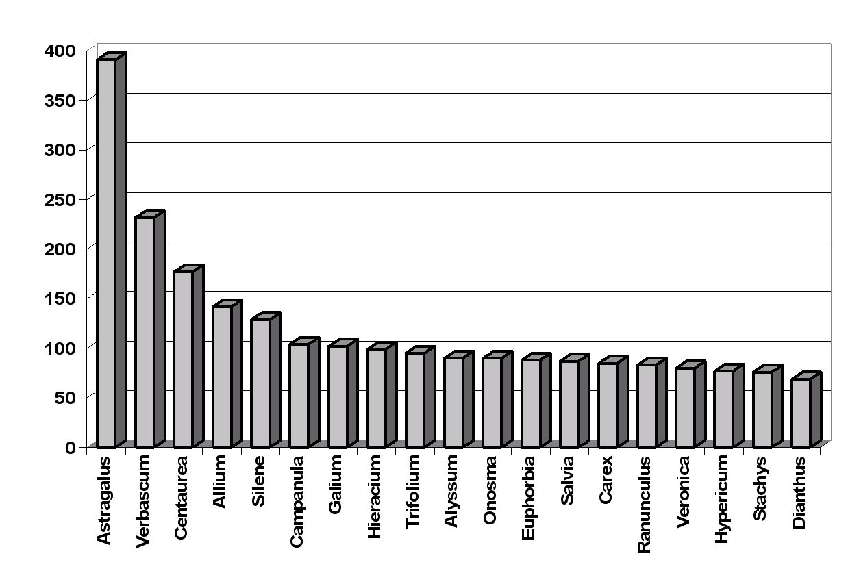 Species numbers of the most important plant genera in Turkey. From: G. Pils: Flowers of Turkey - a photo guide.- 448 pp.– Eigenverlag Gerhard Pils (2006).